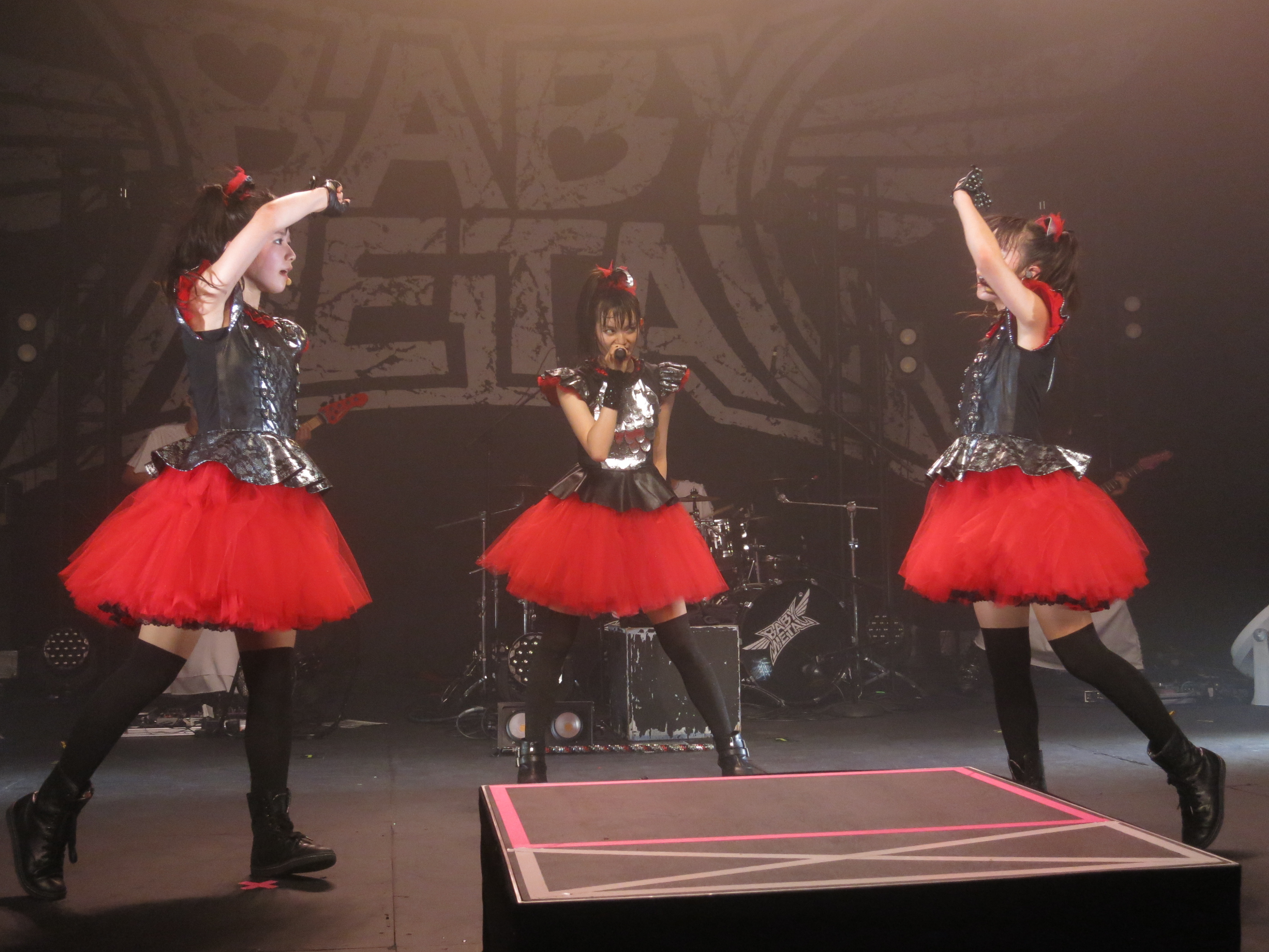 Babymetal performs live at The Fonda Theatre in Los Angeles, CA, USA.